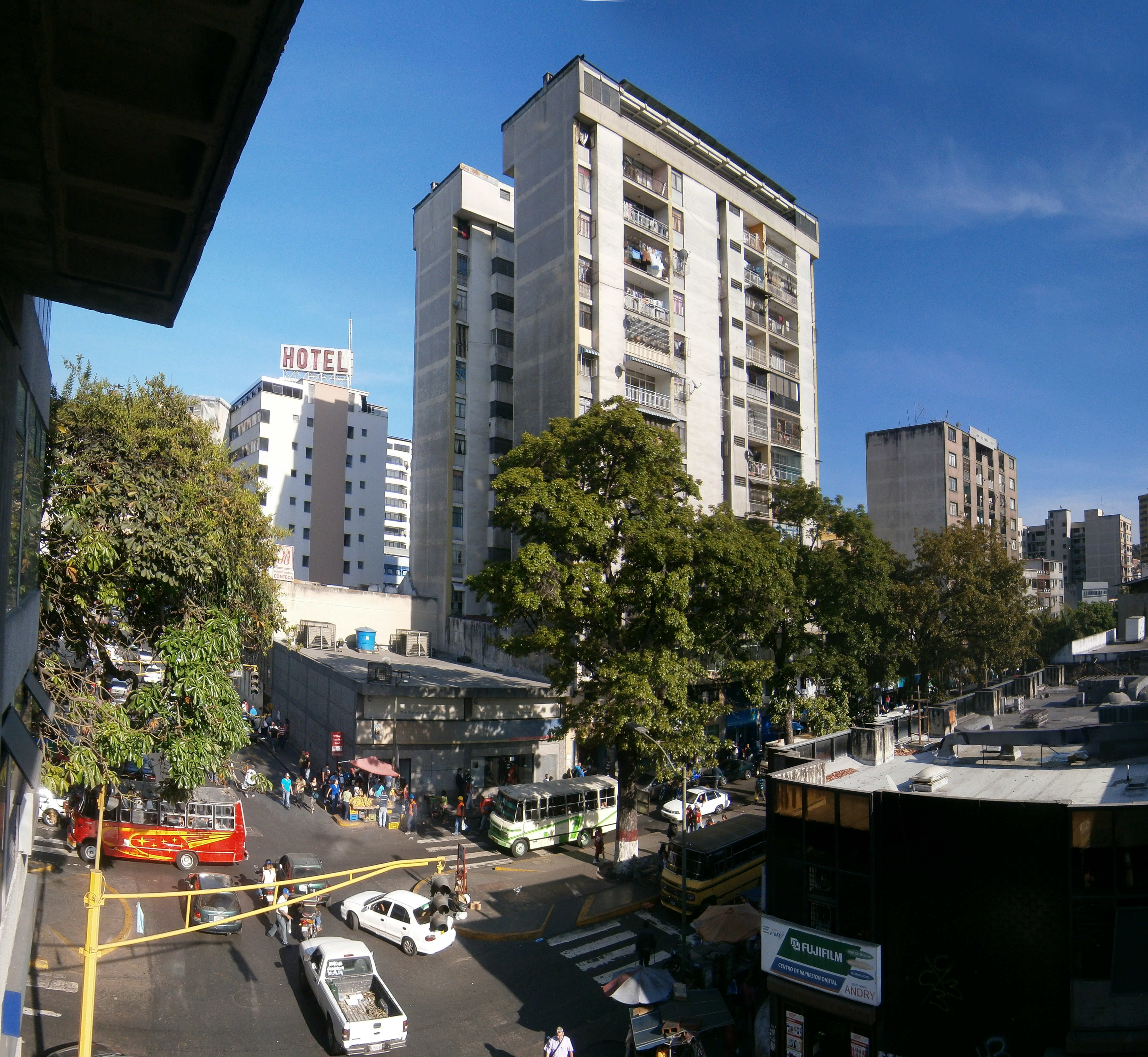 Los Teques Buildings